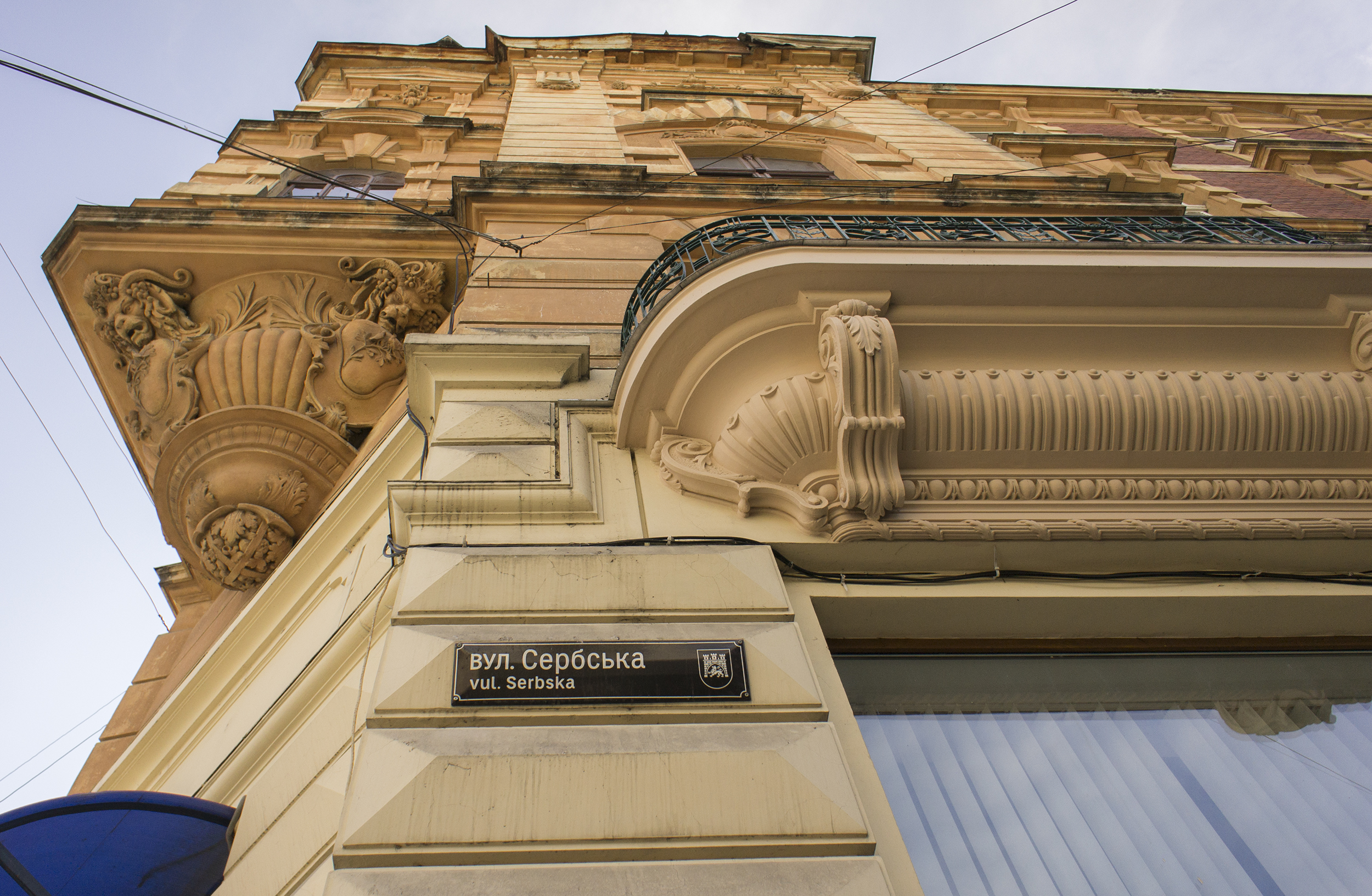 Serbian street in Lvov centre. Српски (ћирилица): Српска улица у центру Лавова, Украјина.